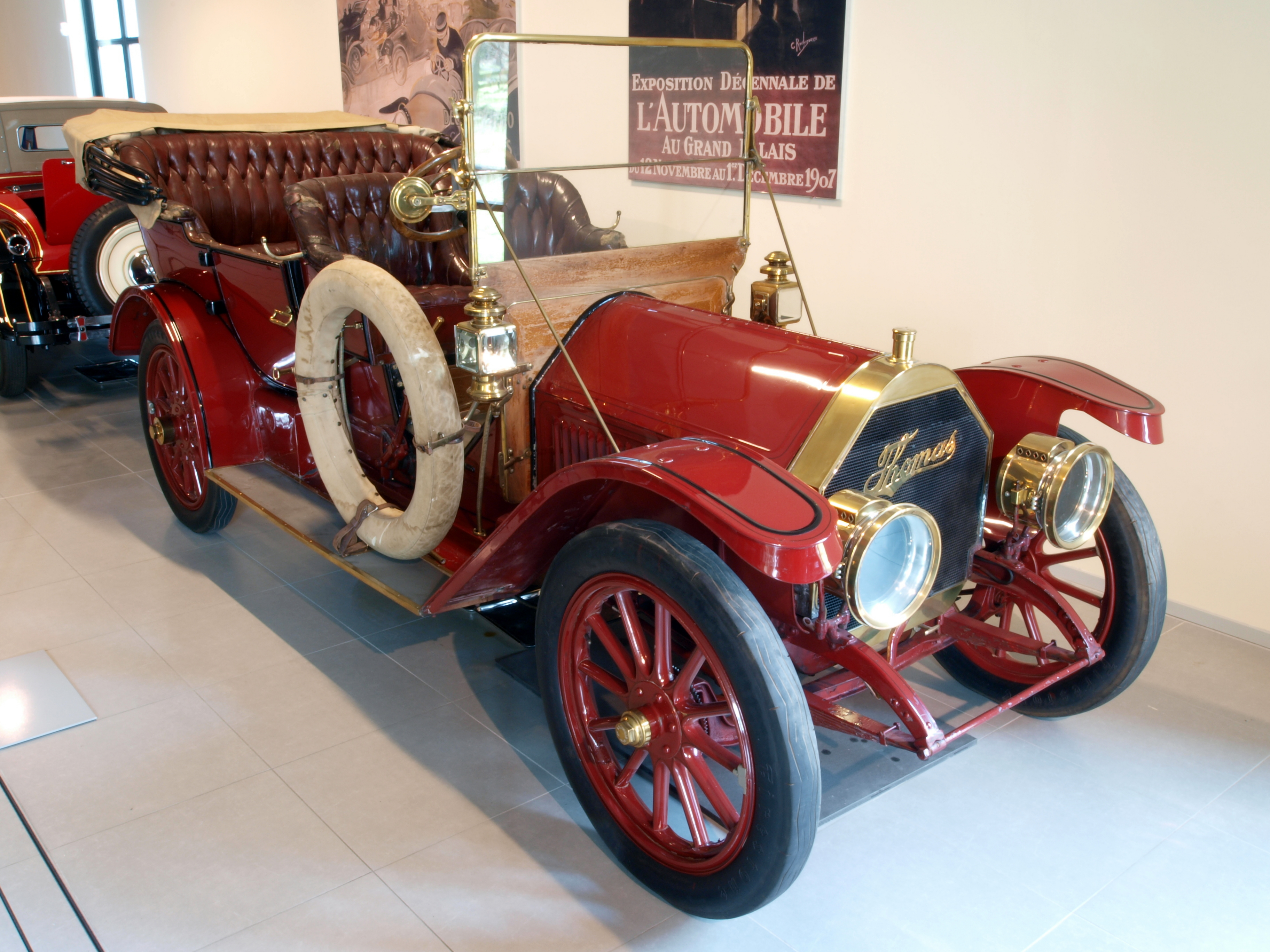 1910 Thomas Flyer Model 6/40M Touring. Photographed at the Louwman museum, The Netherlands.